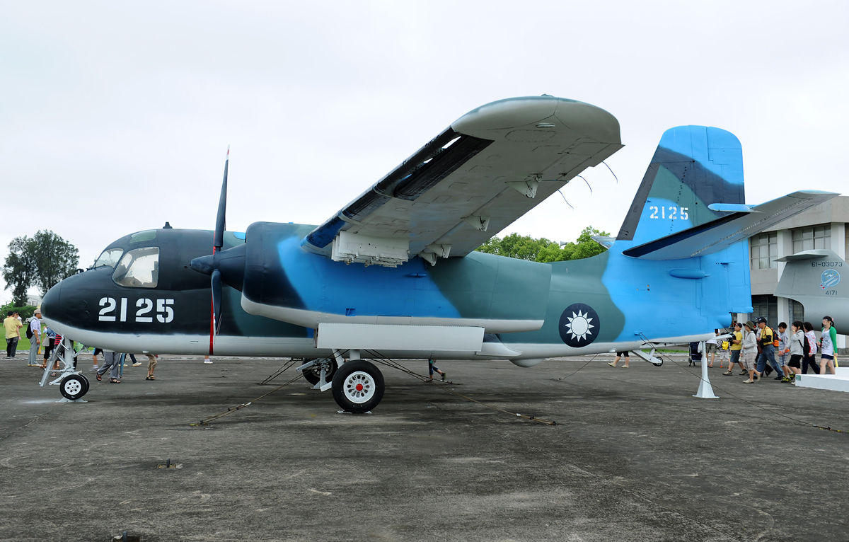 Republic of China Air Force Grumman S-2T Turbo Tracker (G-121)